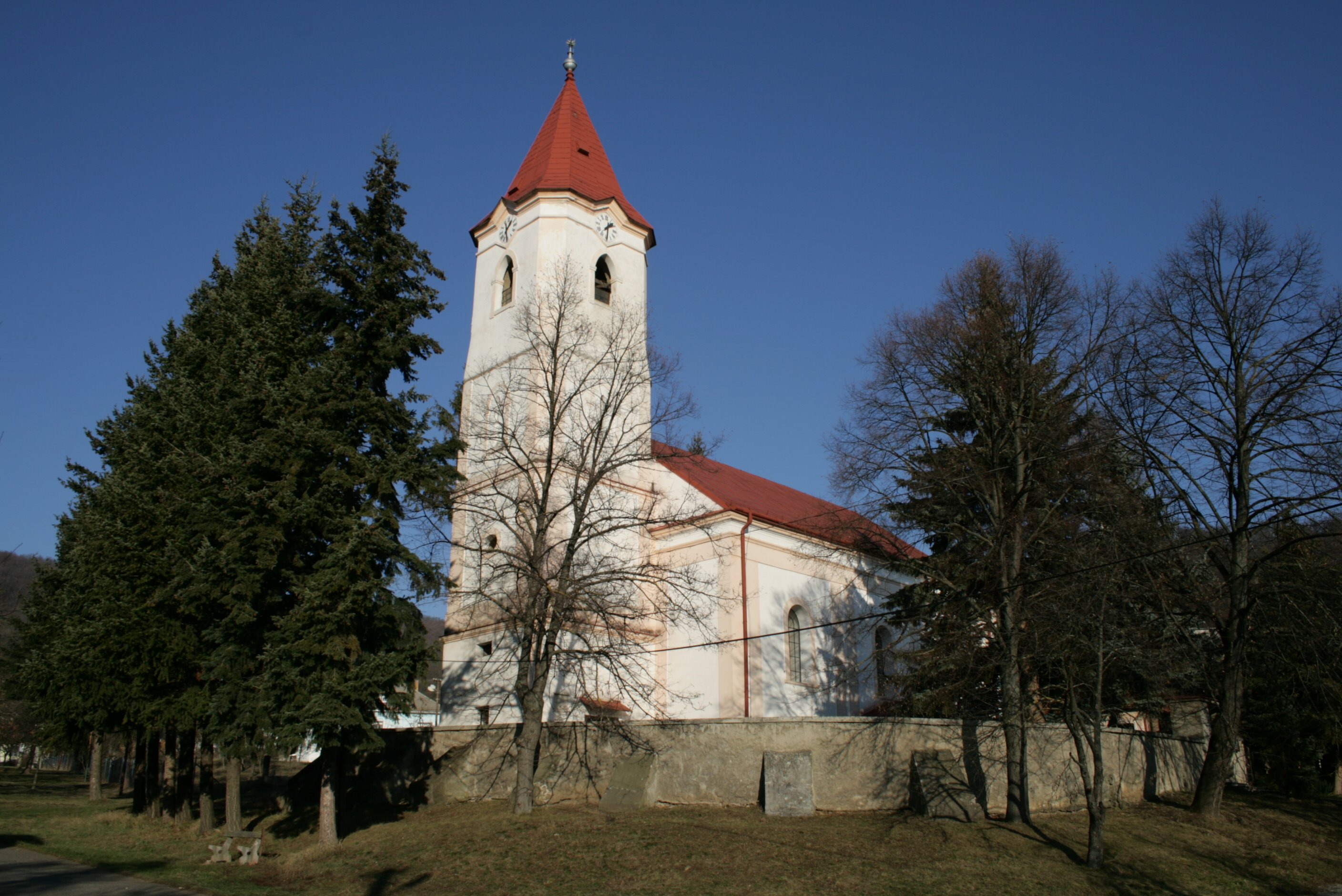 Church from 1863 in Lovinobaňa (Lučenec district, Slovakia).